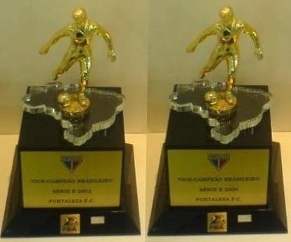 Championship Brazil - Series B - Vice Cup in 2002 and 2004